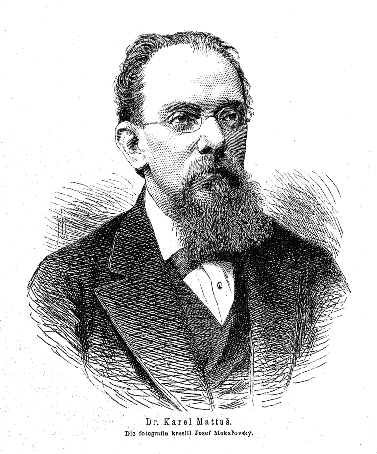 Portrait of Karel Mattuš (1836-1919), Czech politician.